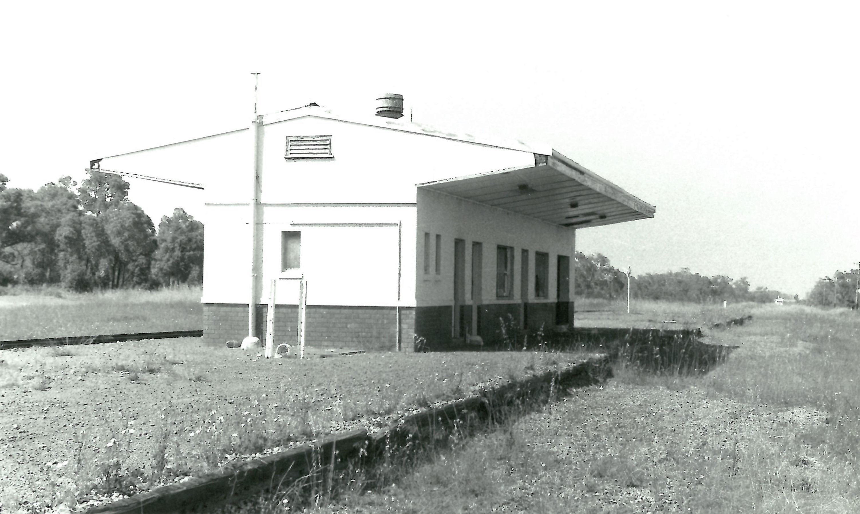 Byford railway station (1987). Photo by Ian L Boersma.